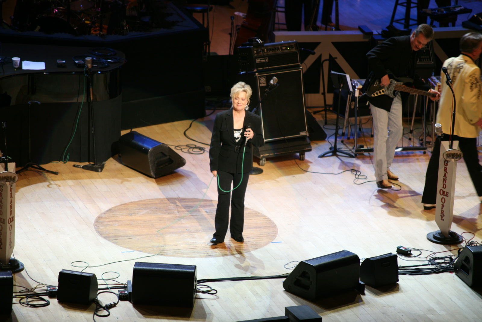 File from Flickr for use on Connie Smith article.